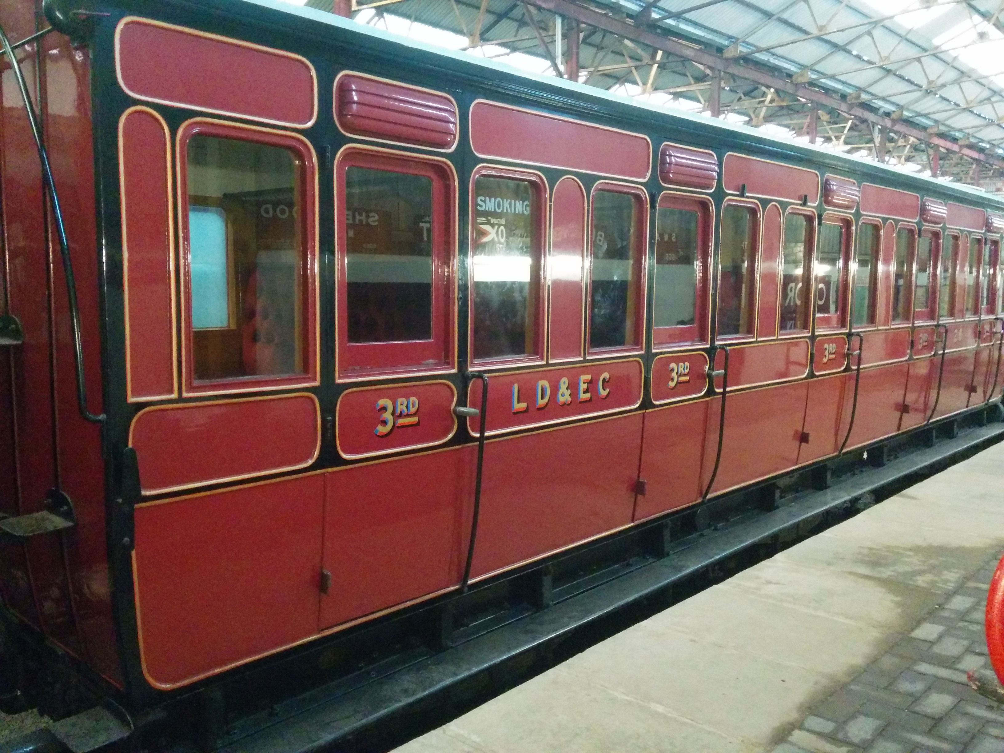 lancs derbys and east coast railway carriage built 1896